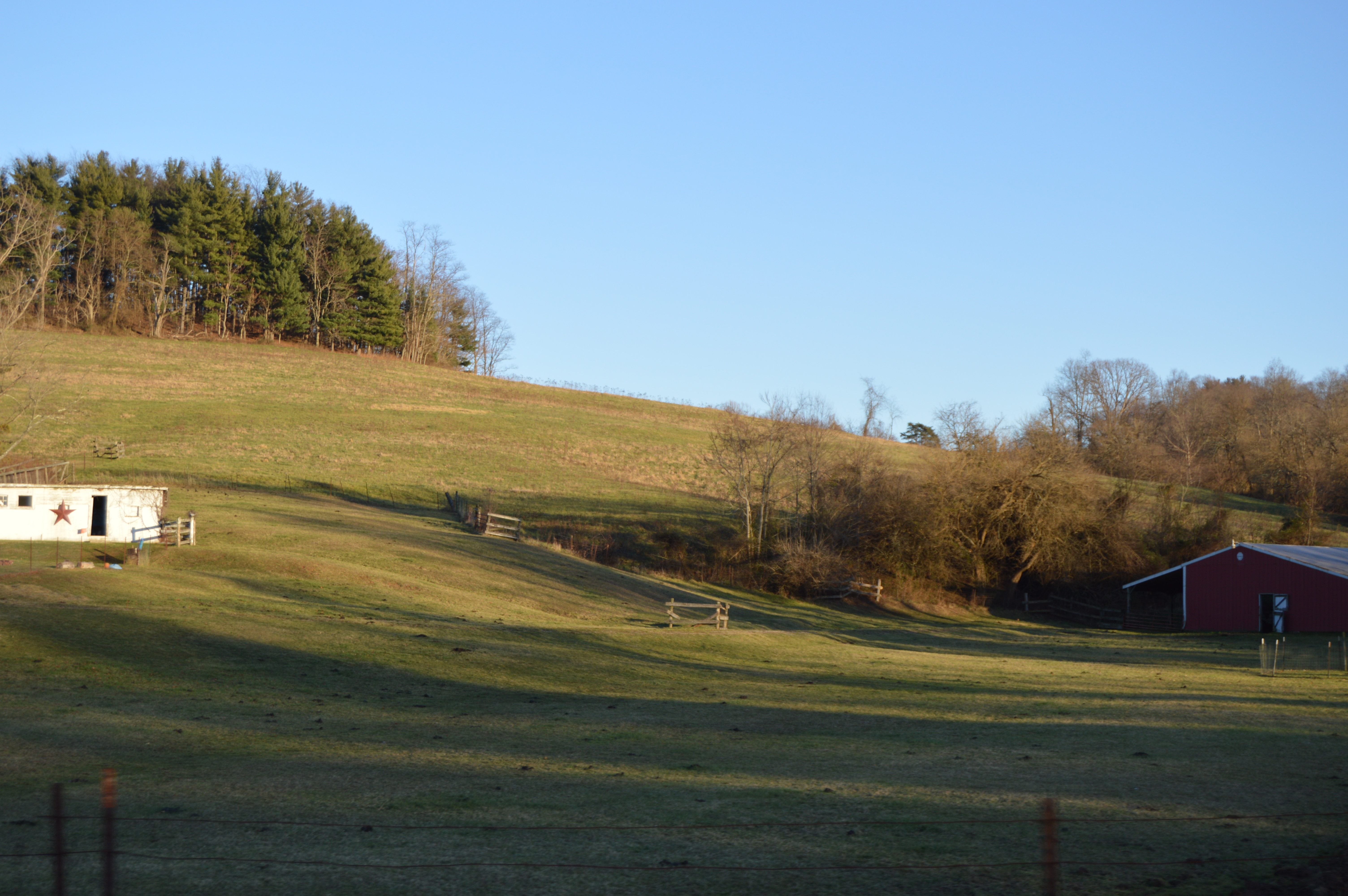 Fields on the eastern side of State Route 26 in northern Grandview Township, Washington County, Ohio, United States.